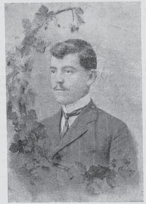 Iliya Lyutviev.